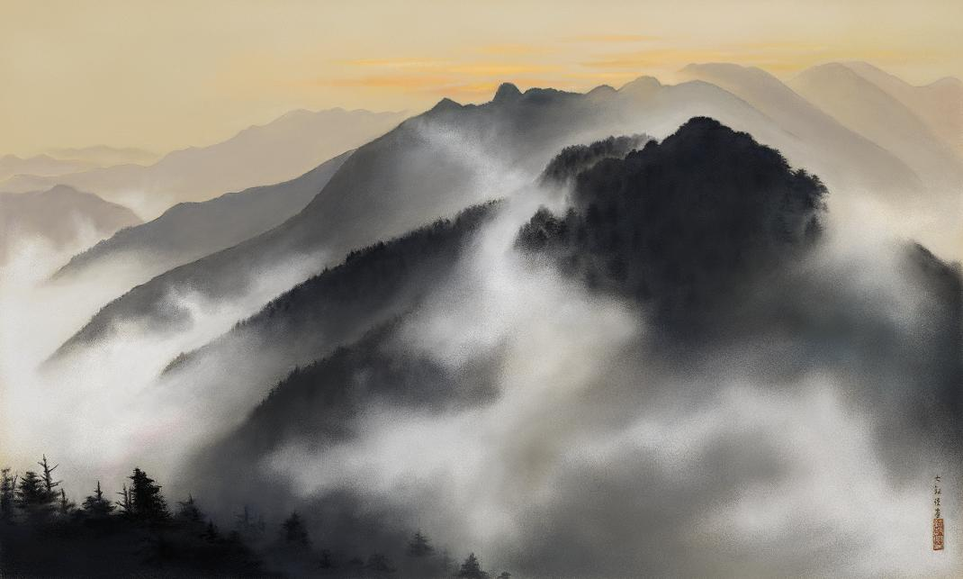 Holy peaks of Chichibu at spring dawn. Hanging scroll, ink on silk. By Yokoyama Taikan in 1928.